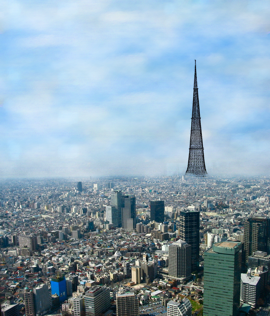 The project of the 4000m-tower of Russian architect Nikolay Nikitin in Tokyo (1967-1968).